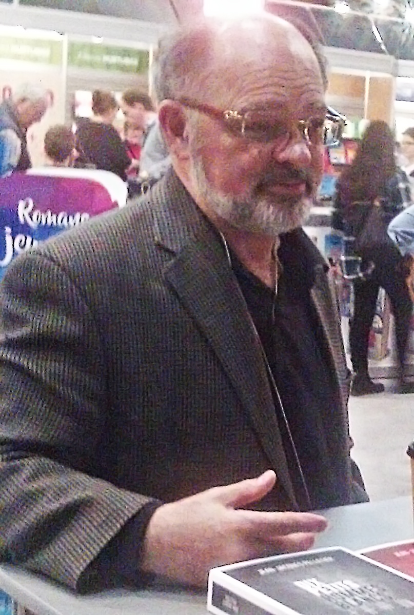 Jean-Jacques Pelletier photographed in Montreal, Quebec, Canada at the Salon du livre de Montréal 2016.